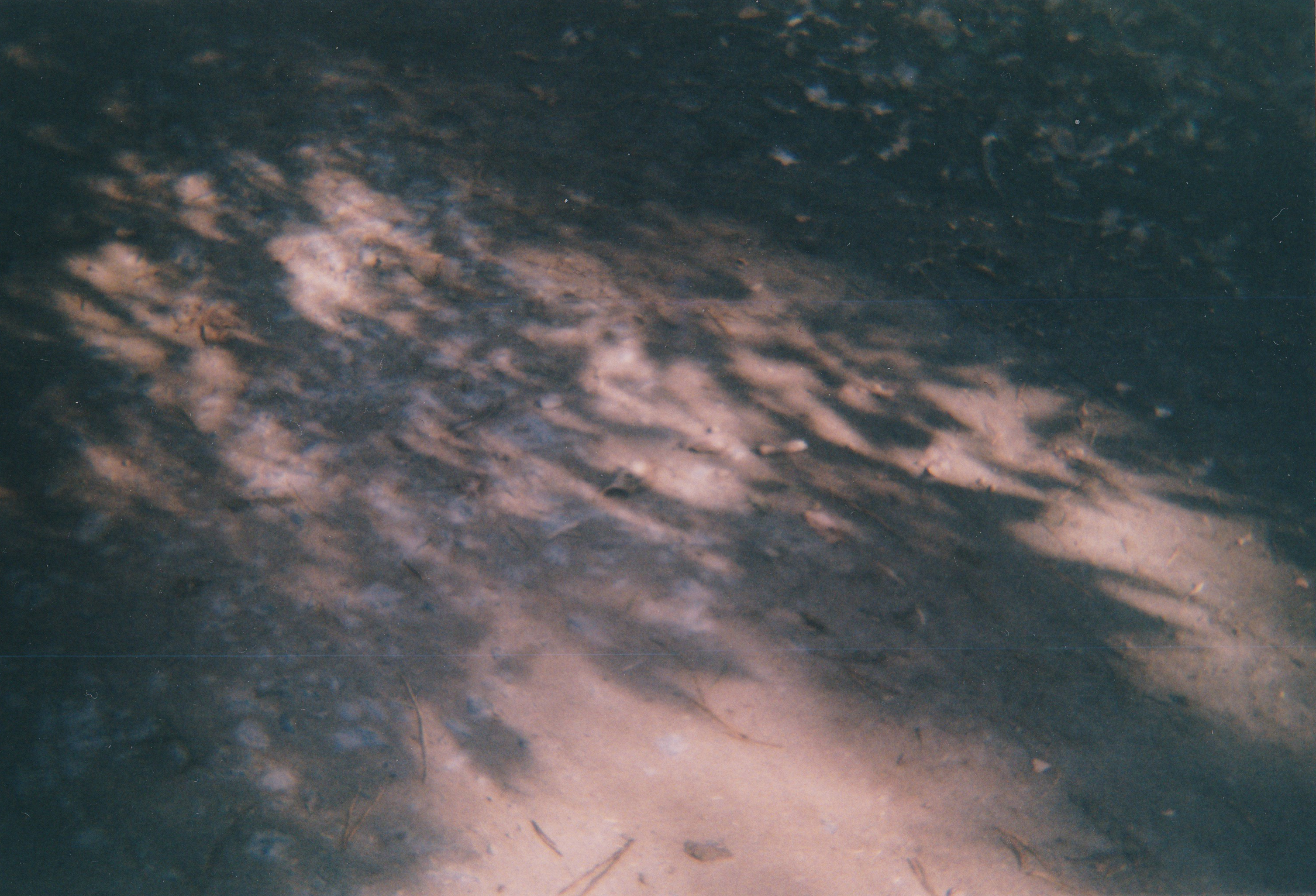 Sun sichels during partial eclipse